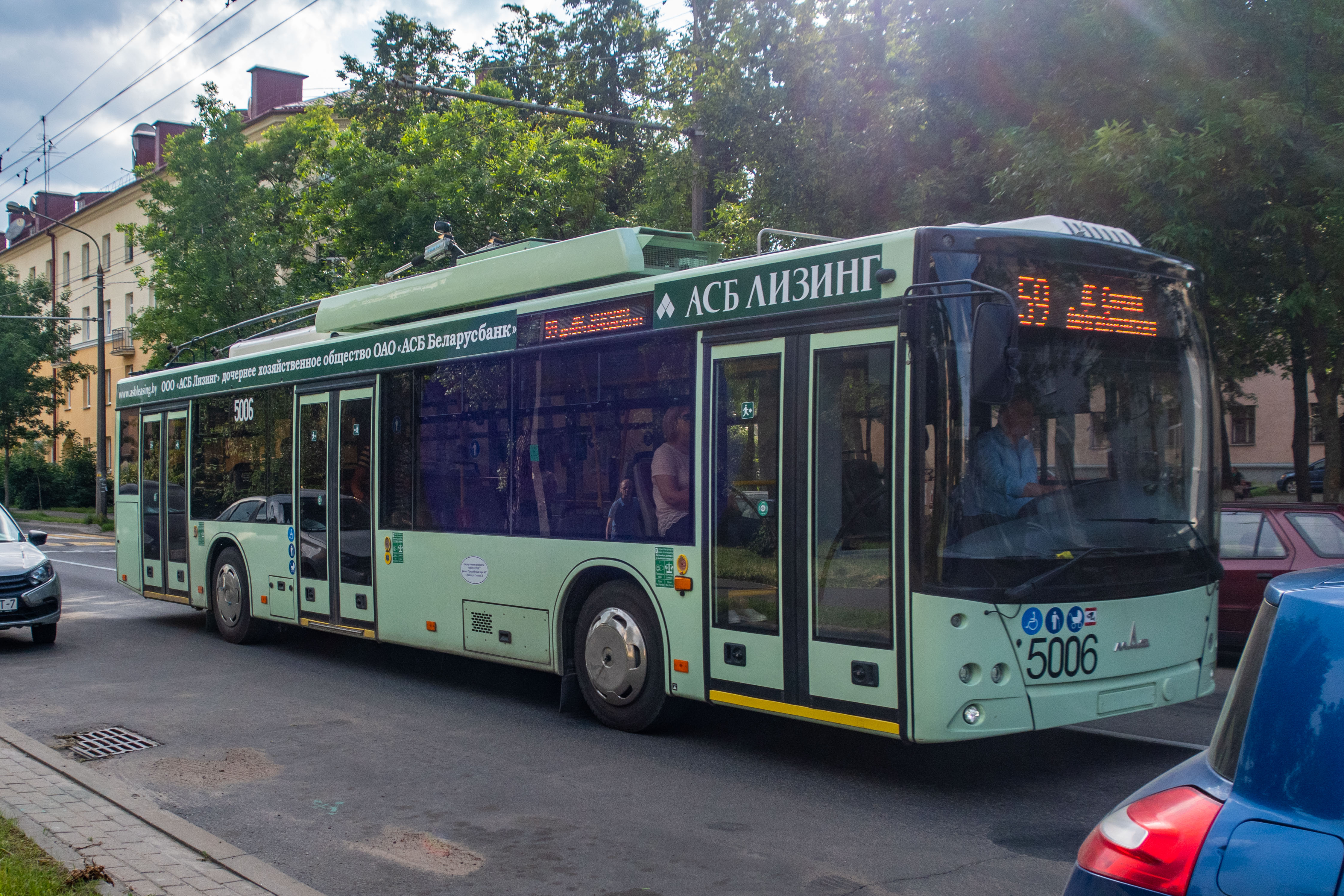 MAZ-203T trolleybus. Minsk, Belarus